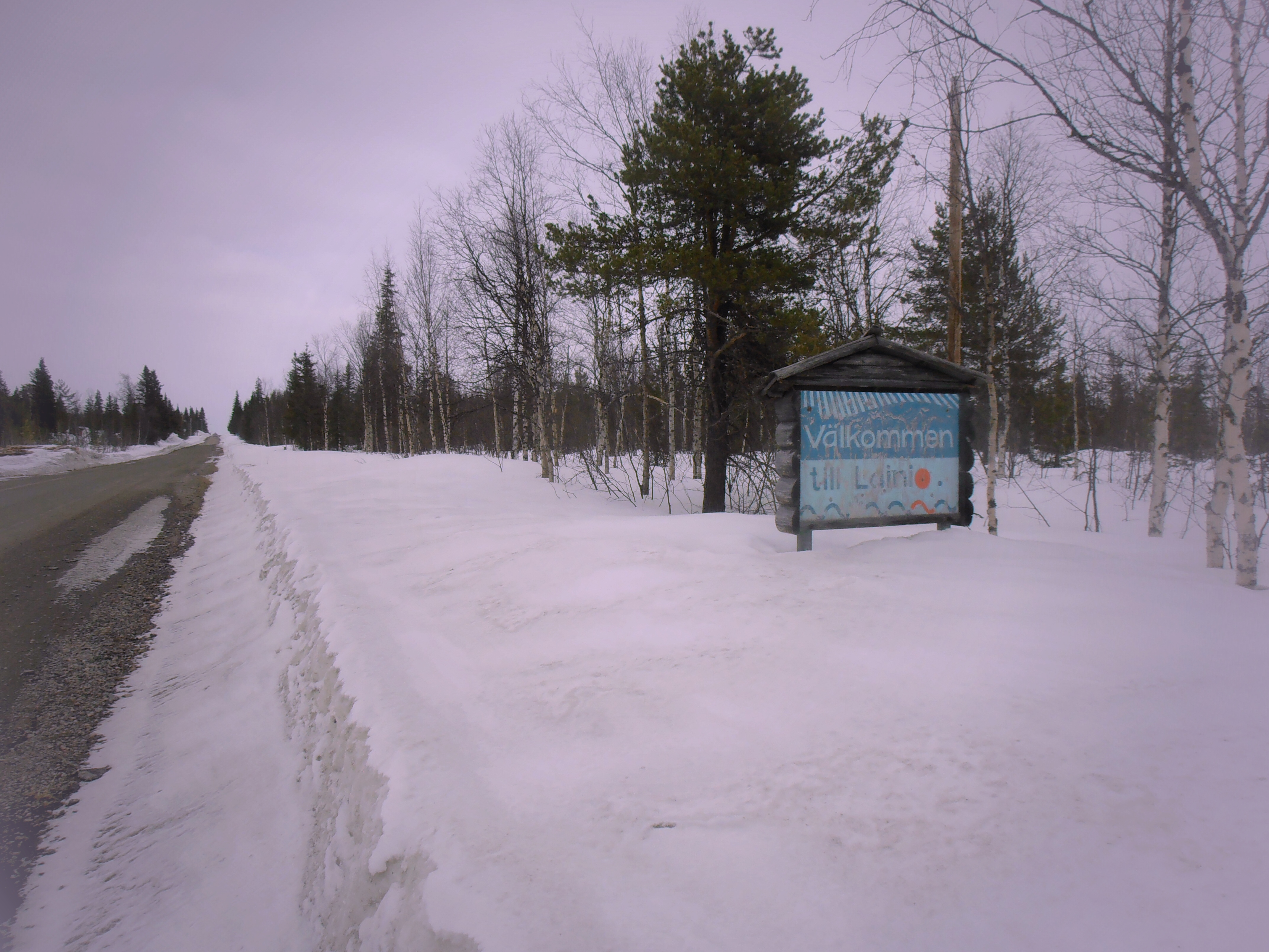 Welcome sign to Lainio